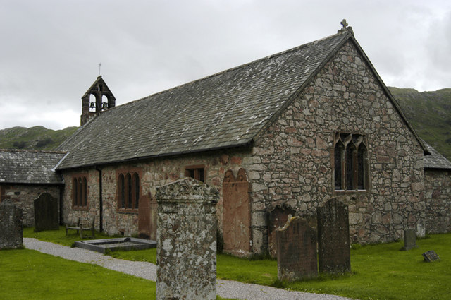 St Catherine's parish church, Boot, Eskdale, Cumbria, seen from the southeast